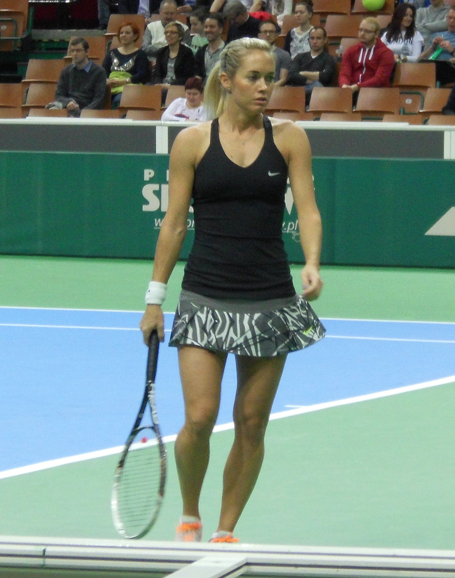 Klára Koukalová during doubles final match at BNP Paribas Katowice Open 2014